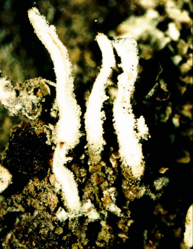 Cladonia macilenta var. bacillaris (Genth) Schaerer (photograph of a herbarium specimen taken through a dissecting microscope (x12) showing podetia covered with fine soredia) (Reactions: K-, P-) Growing on a fallen pine in Jack Pine Plains near Crumley Creek, off US-68, Cheboygan County, Michigan, USA; collected and identified by Richard E. Riefner (No. 81-456, 14 Jul 1981); specimen is now in the Lichen Herbarium of the New York Botanical Garden.